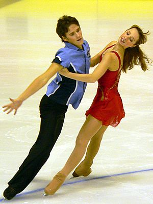 Kristina Gorshkova and Vitali Butikov during their exhibition at the 2005 Junior Grand Prix event in Croatia